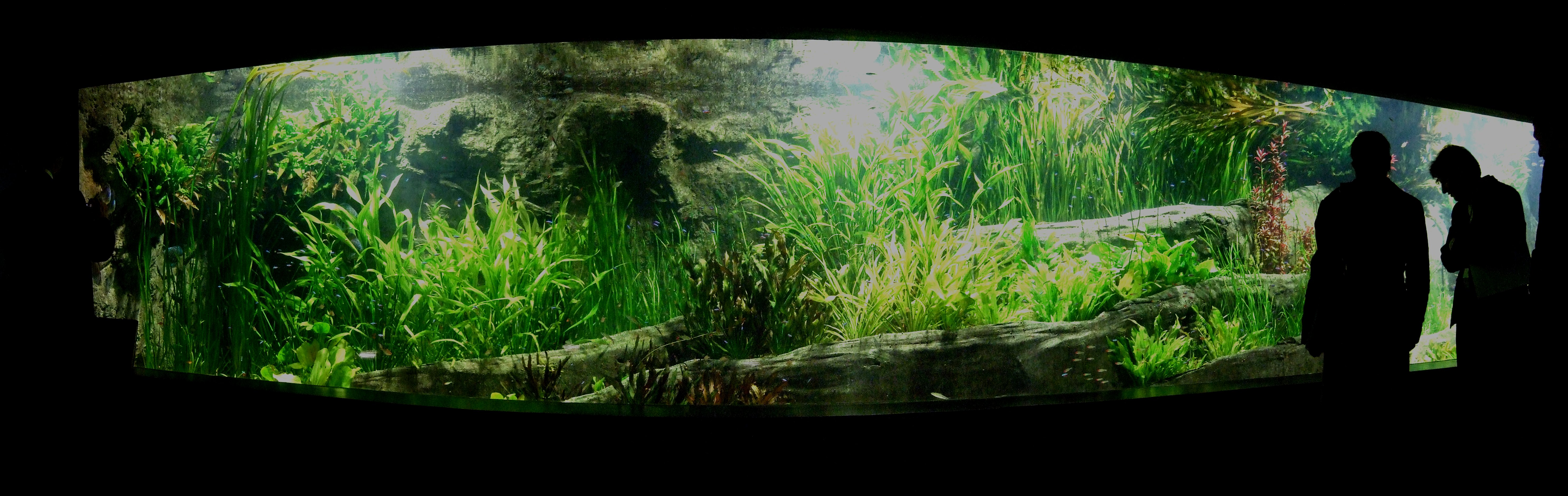 Tropic aquarium, Zoo "Tierpark Hagenbeck", Hamburg, Germany.